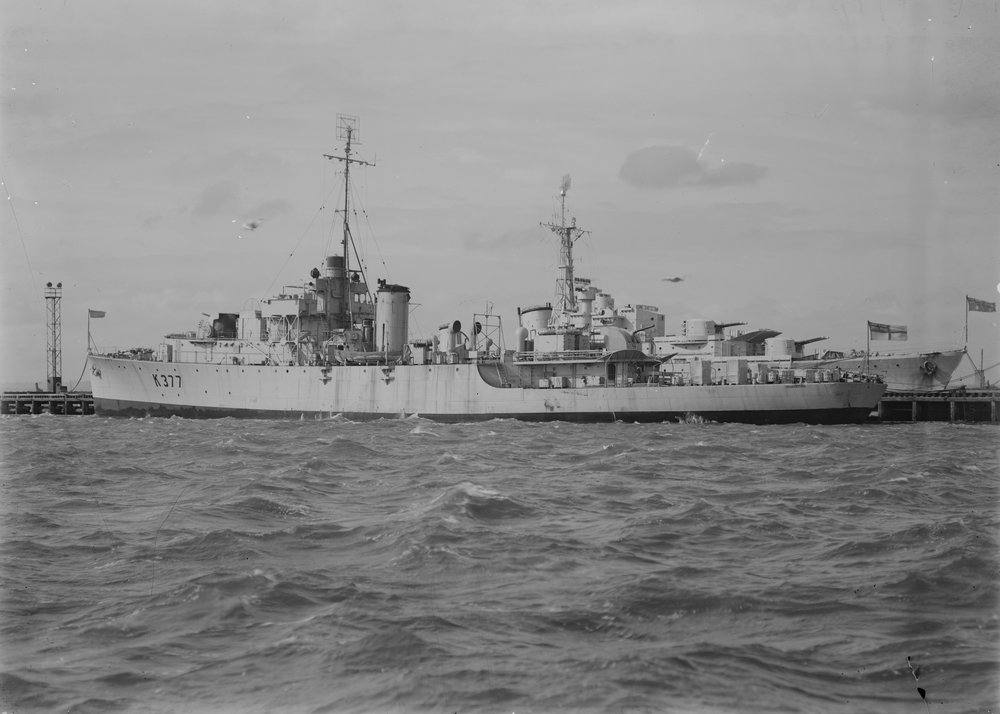 Photograph of Australian frigate HMAS Diamantina.